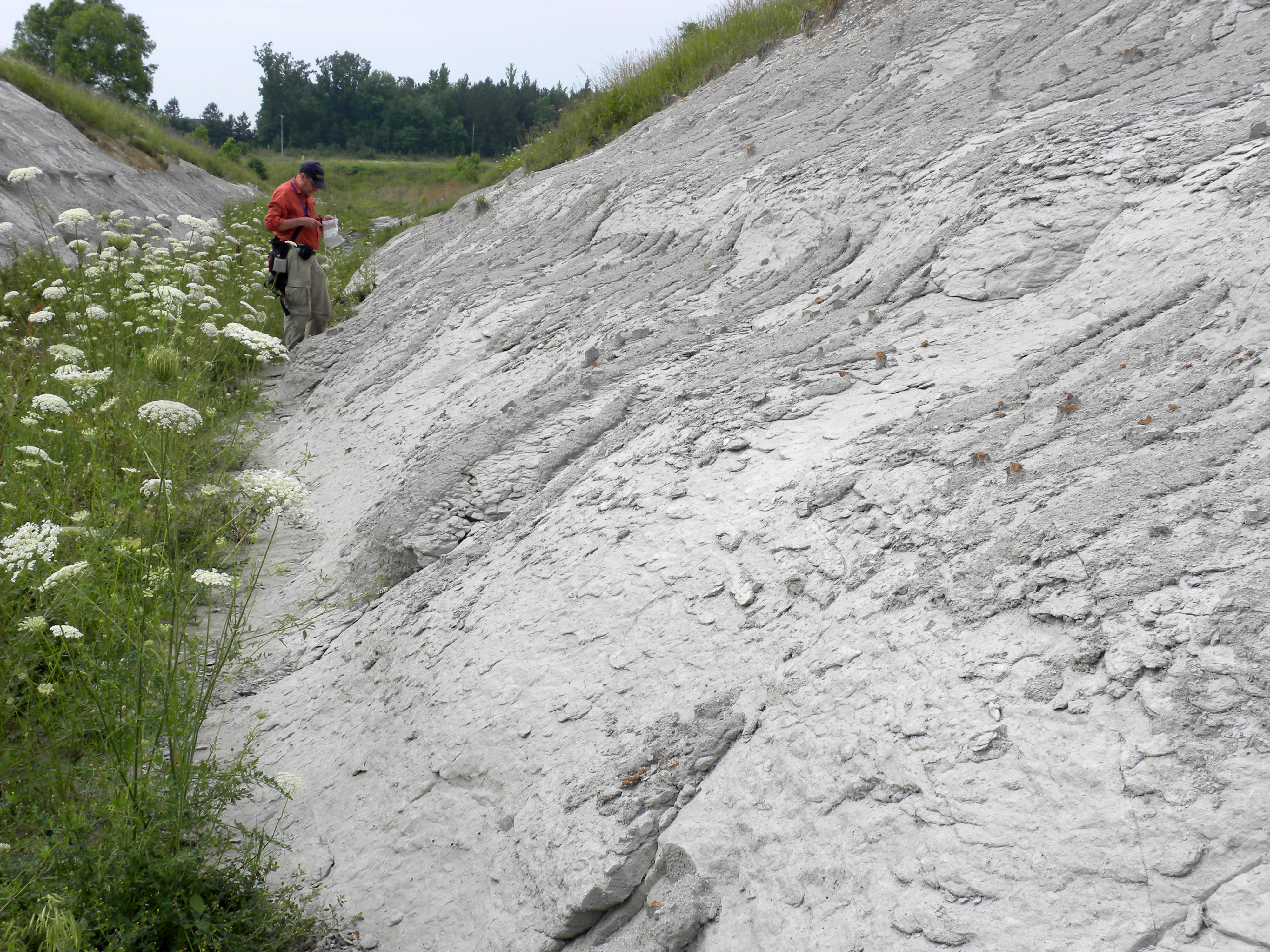 Prairie Bluff Chalk Formation in Maastrichtian, Starkville, Mississippi. (In the ICS geologic timescale, the latest age or upper stage of the Late Cretaeous epoch or Upper Cretaceous series.)